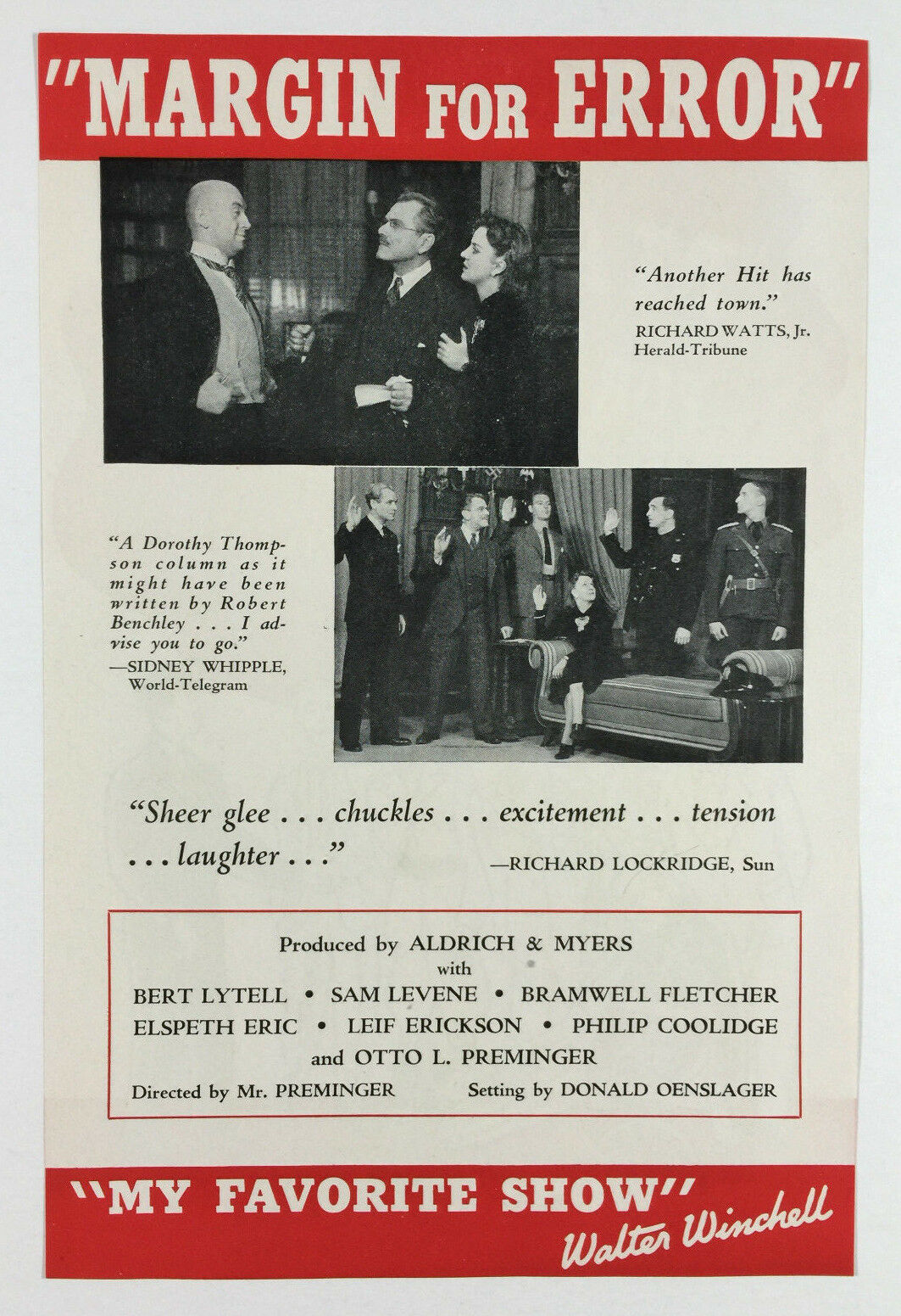 Back of a flyer advertising the Broadway production of Margin for Error, a play written by Clare Boothe Luce and produced by Richard Aldrich and Richard Myers.